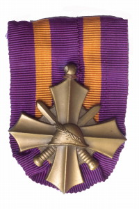 Dutch, Mobilisation War Cross, front